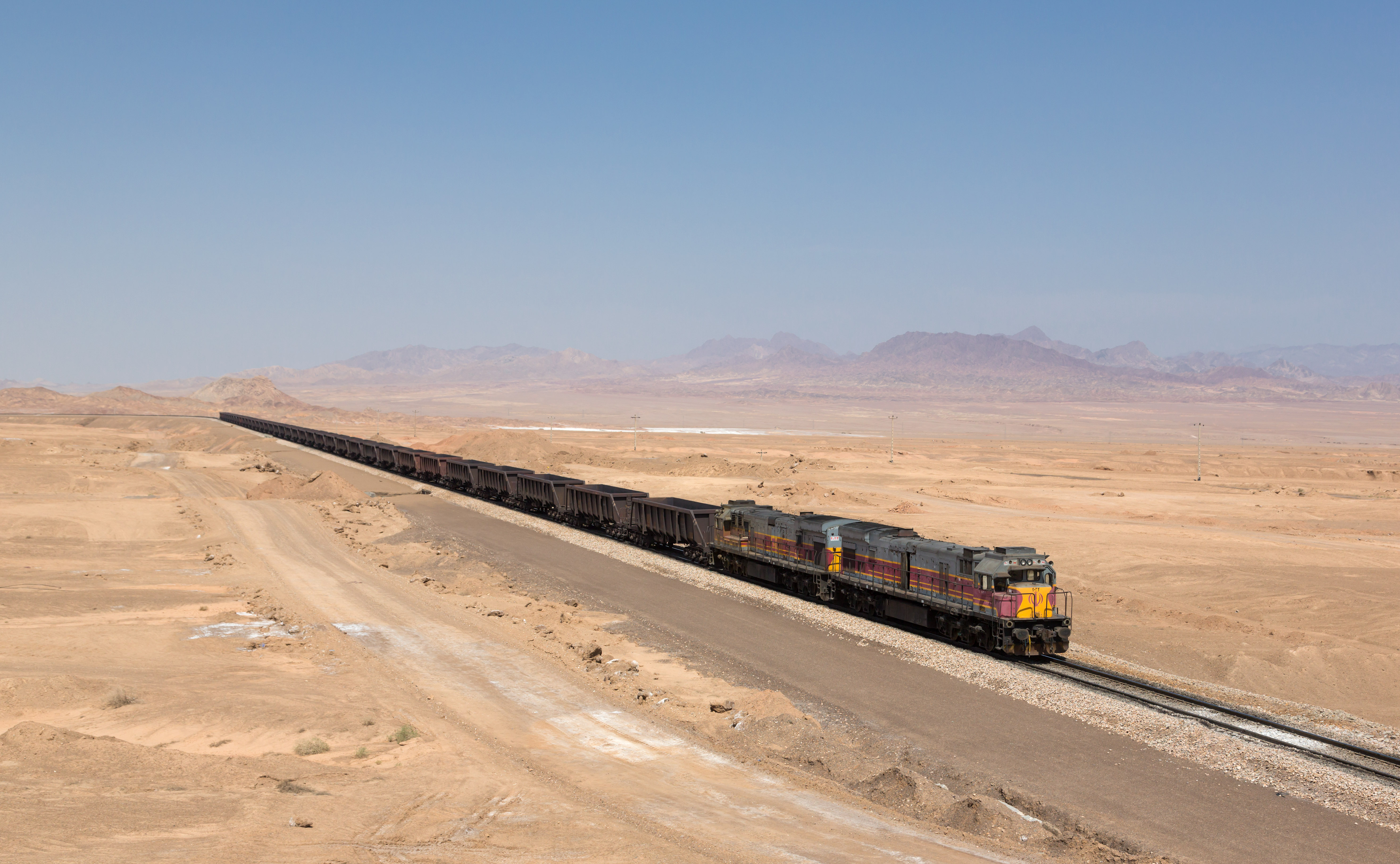 60-2032 (GE C30-7i) of Islamic Republic of Iran Railways and a sister unit haul an empty iron ore train between Yazd and Bafq, Iran